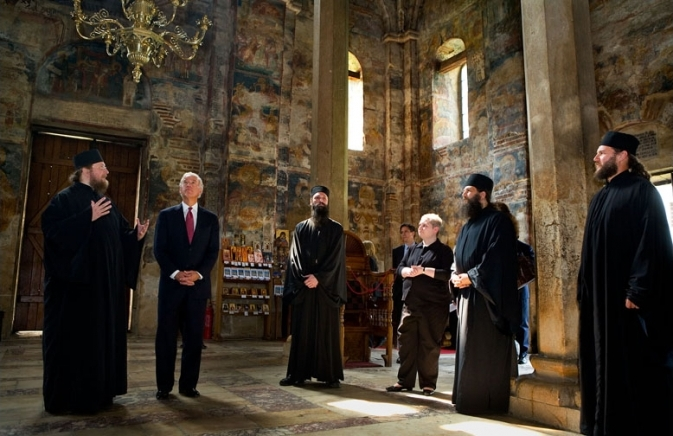 Vice President Joe Biden is led on a tour of the Decani Monastery by Serbian Orthodox Monk Father Sava (left), in Decani, Kosovo, Thursday, May 21, 2009.